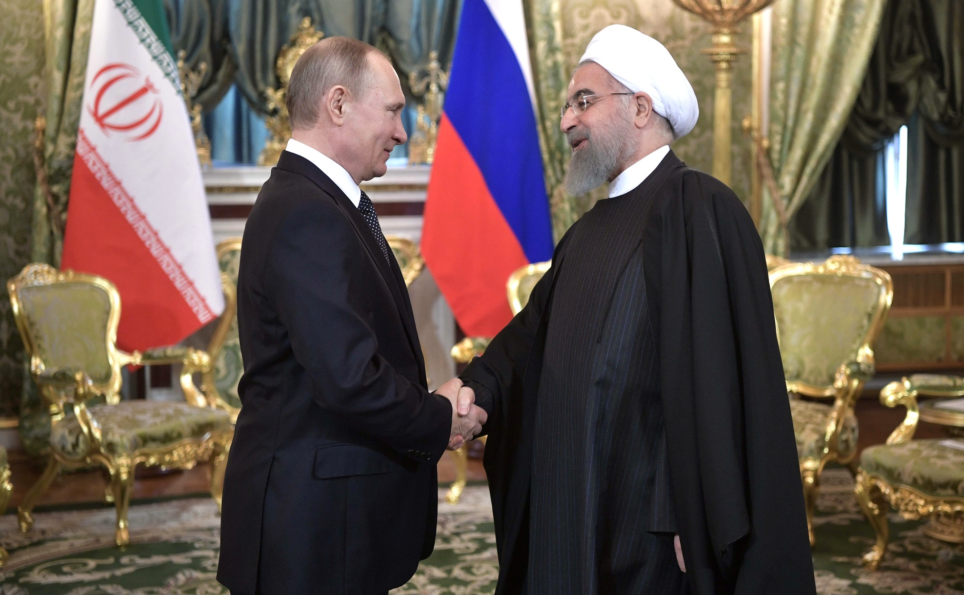 With President of Iran Hassan Rouhani.